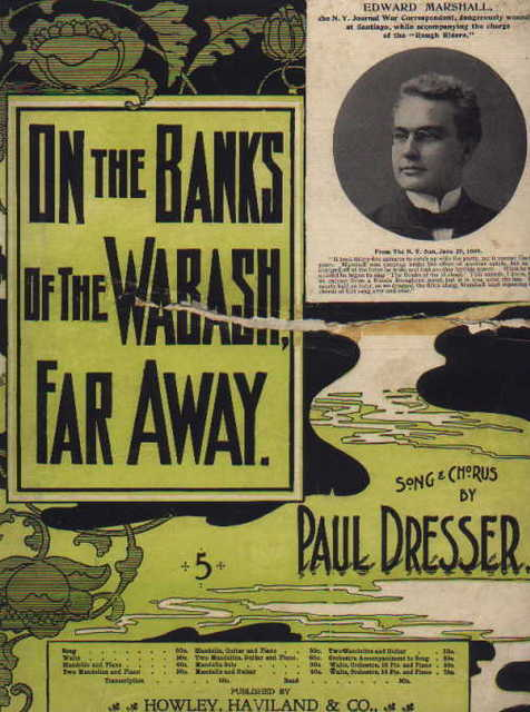 Cover of c. 1898 sheet music issue of Paul Dresser's song On The Banks Of The Wabash, Far Away".